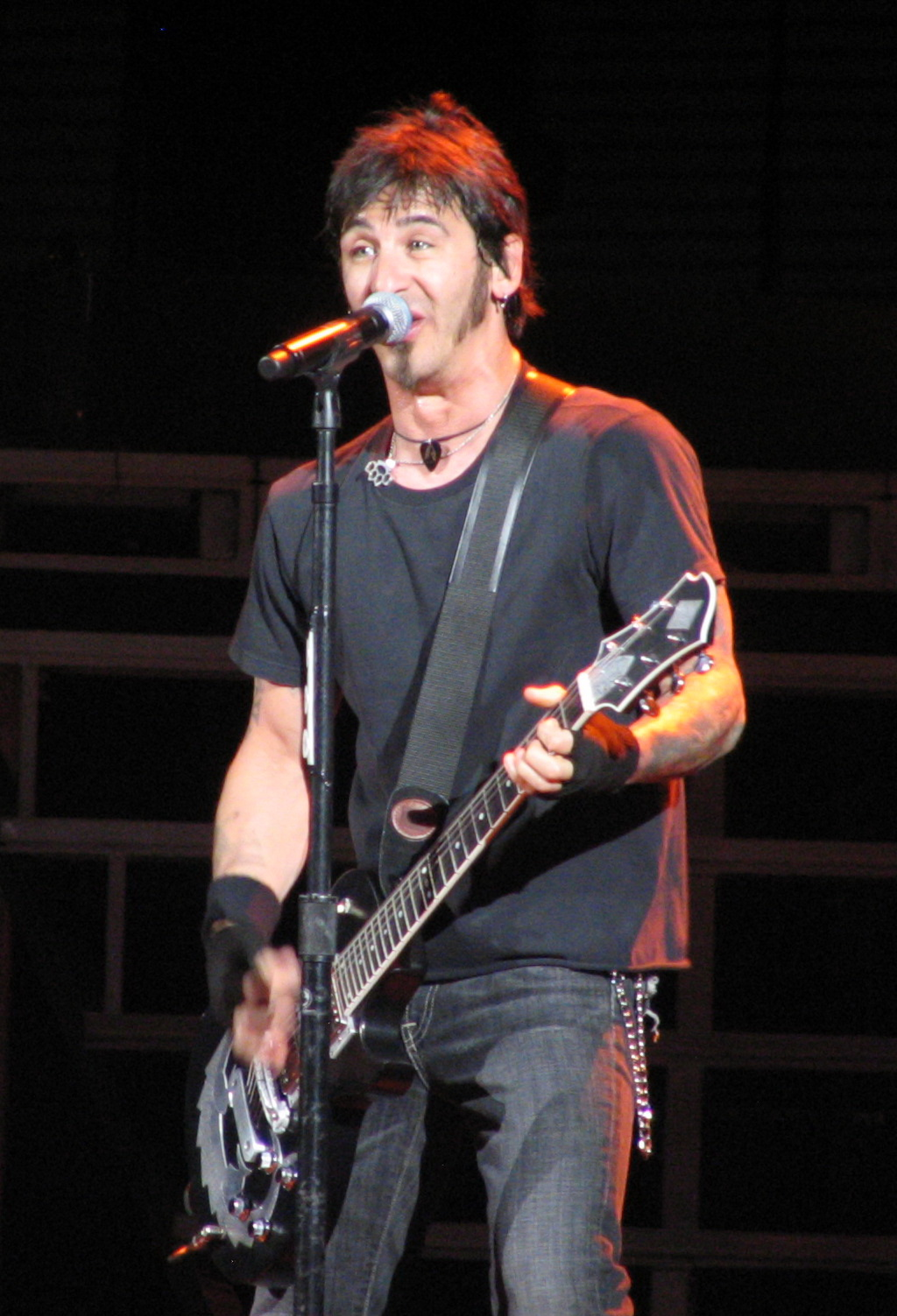 Godsmack @ Cricket Pavilion, Phoenix, AZ